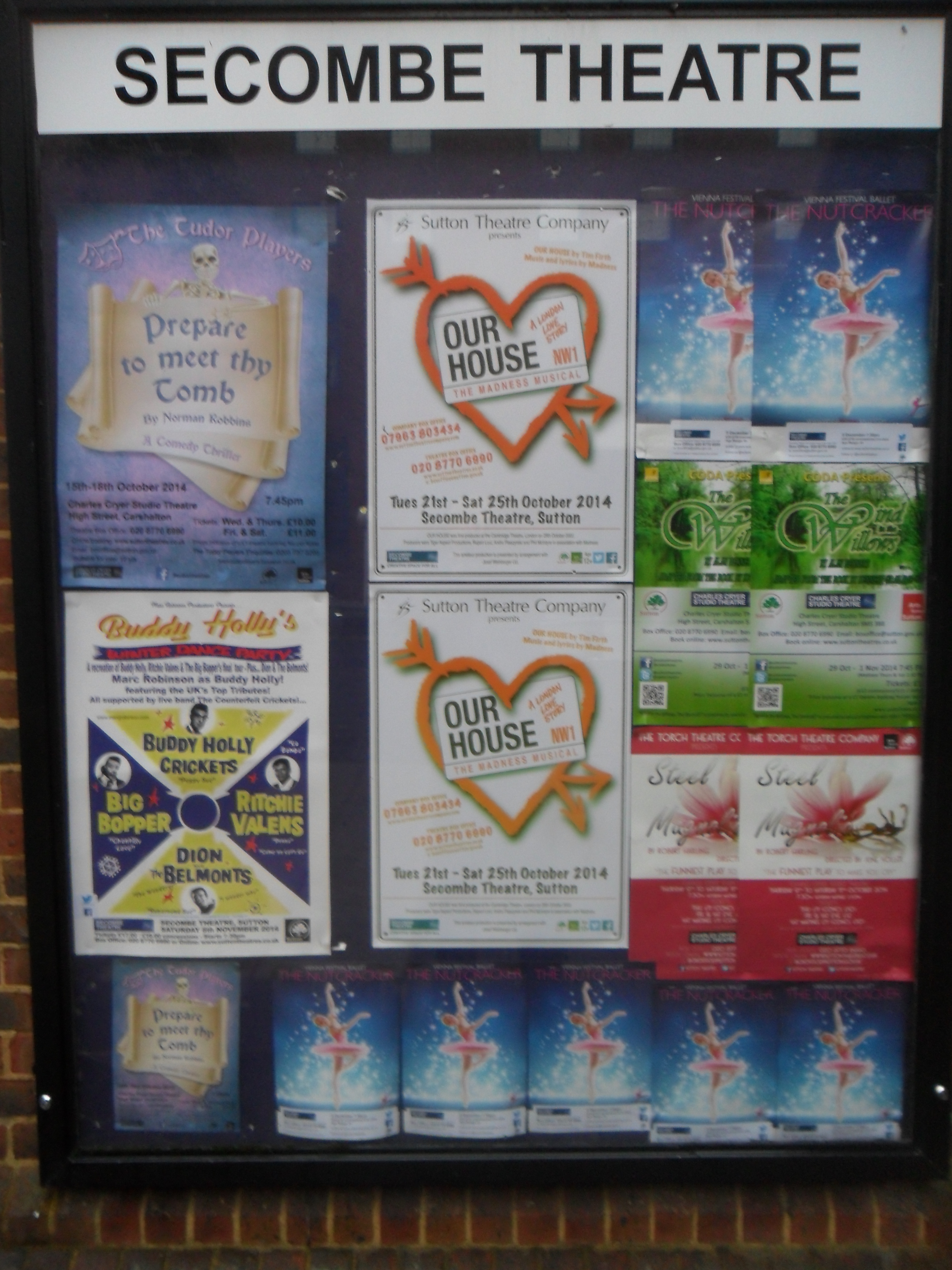 What's on at the Secombe Theatre, Sutton, Surrey in the London Borough of Sutton. The theatre was opened in 1984 by former Goon Show member Sir Harry Secombe who lived in Sutton for 32 years. The theatre building was built in 1937 as a Christian Scientist Church.